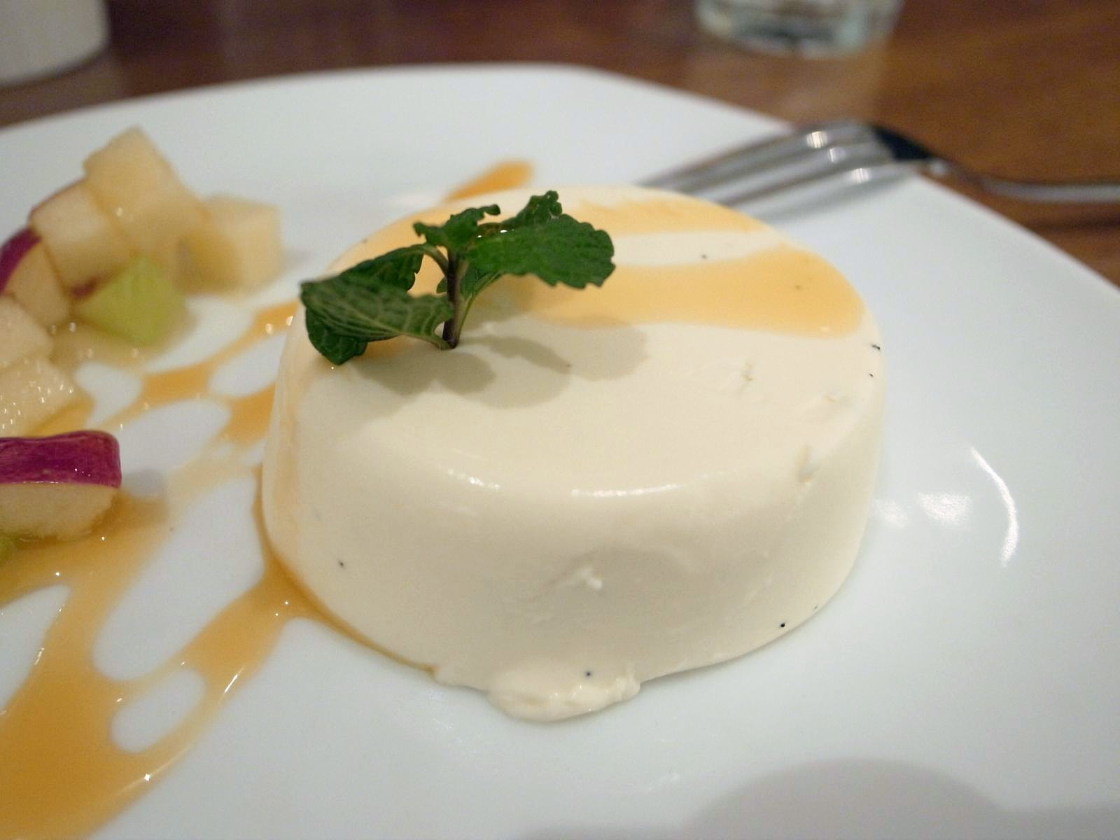 Panna Cotta with cream and garnish.